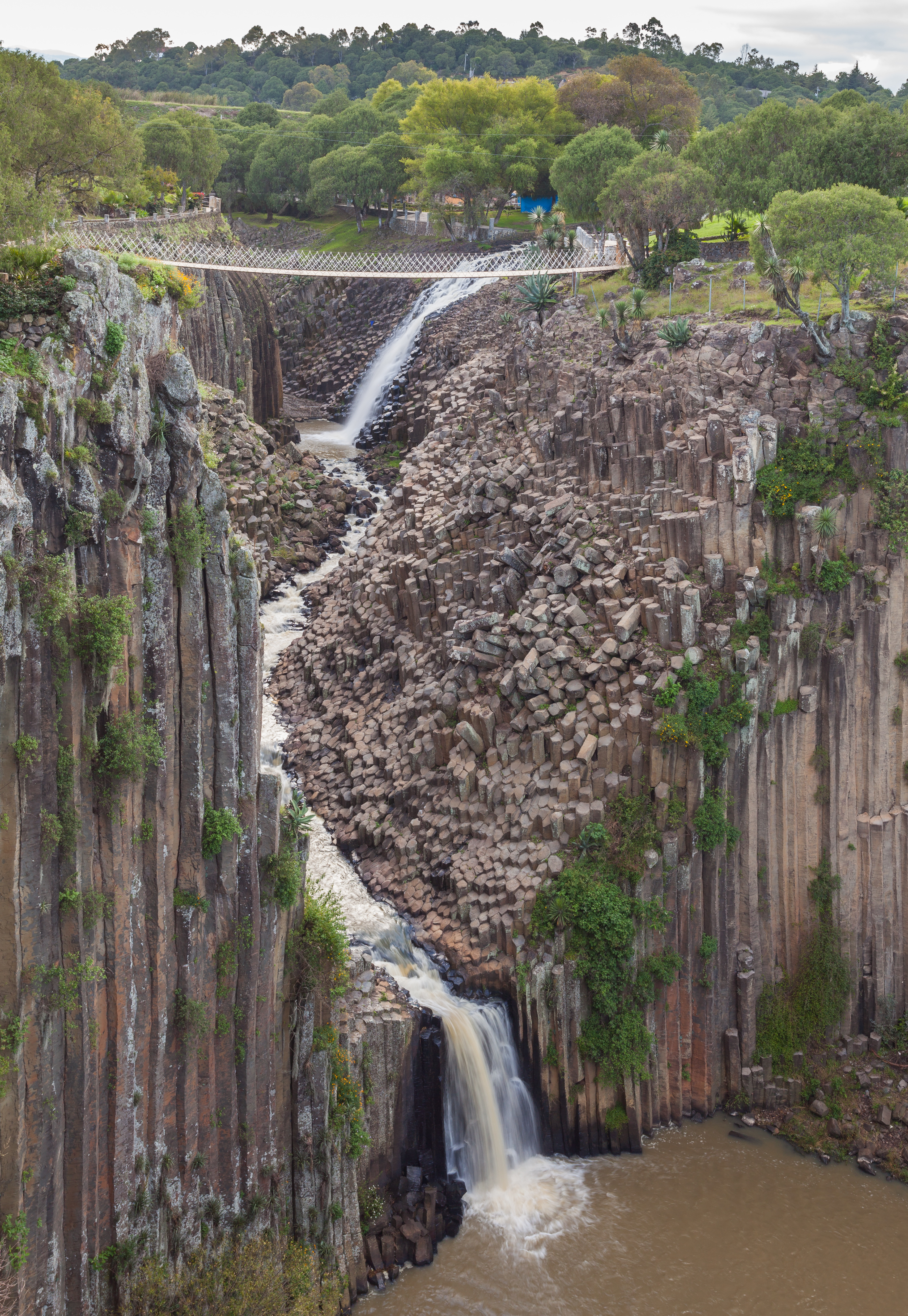 Comprehensive view of the waterfalls over the Basaltic Prisms of Santa María Regla, Huasca de Ocampo, State of Hidalgo, Mexico.